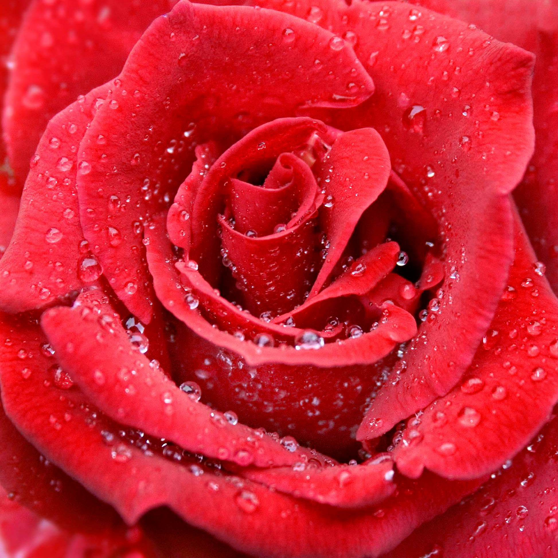 Raindrops red rose